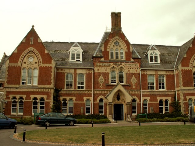 Saffron Walden Hospital, Essex. This red brick Gothic building was built in 1863-6 and designed by William Beck.